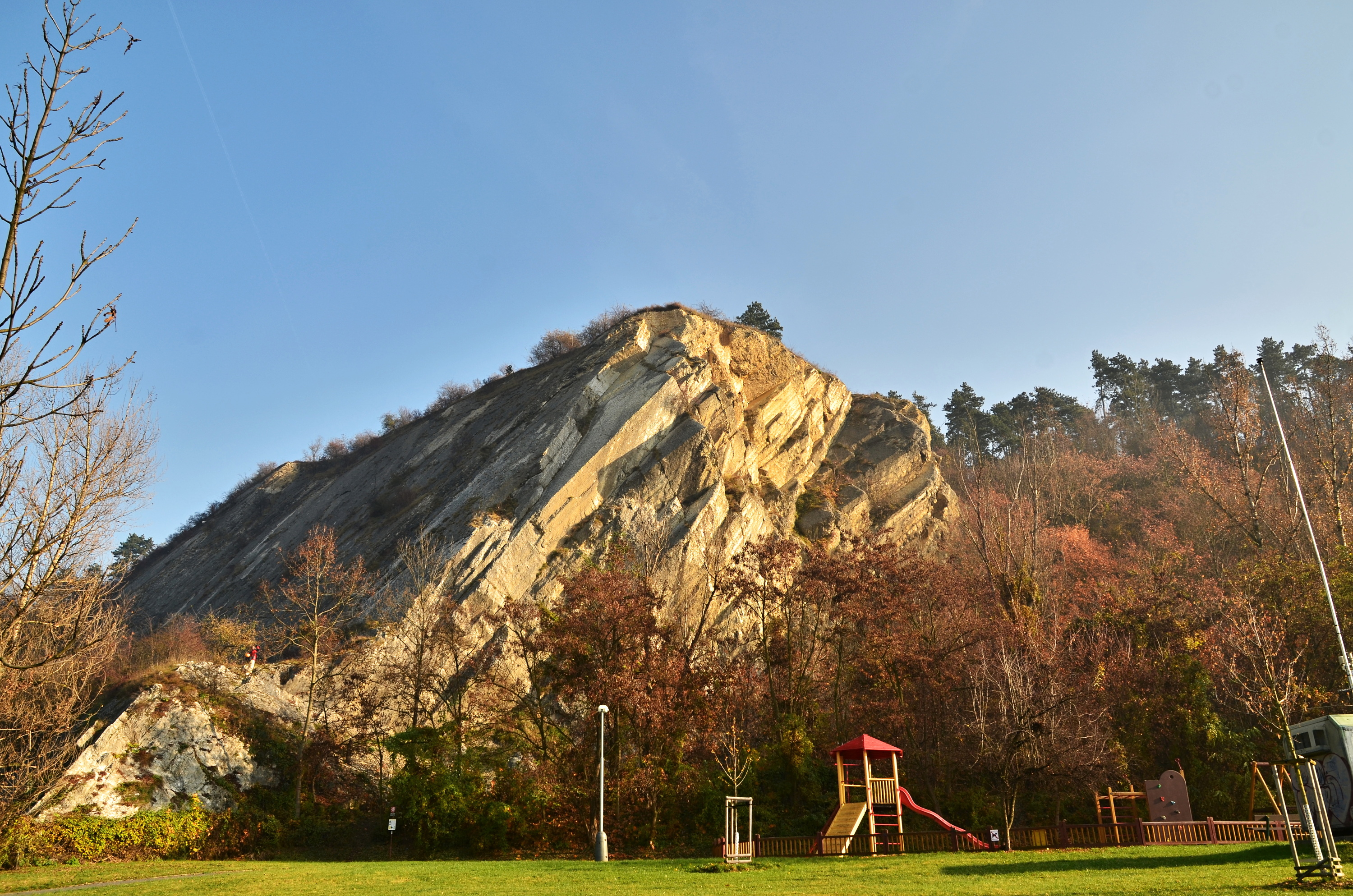 Natural monument Branické skály in Prague, Czech Republic